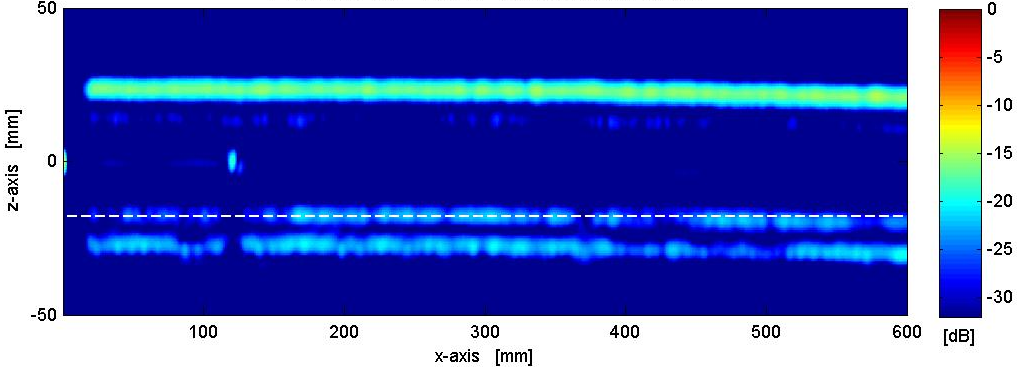 B-scan